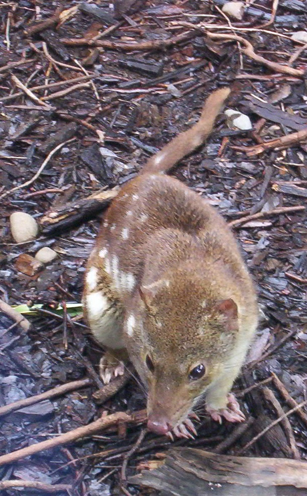 Spotted-tail Quoll